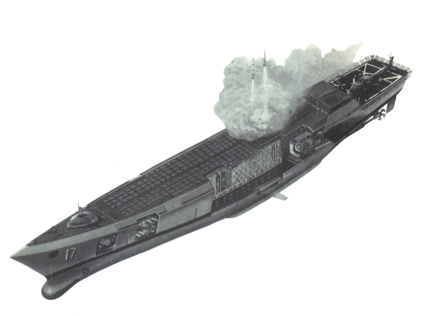 Artits's impression of the U.S. Navy "Surface Combatant for the 21st century".